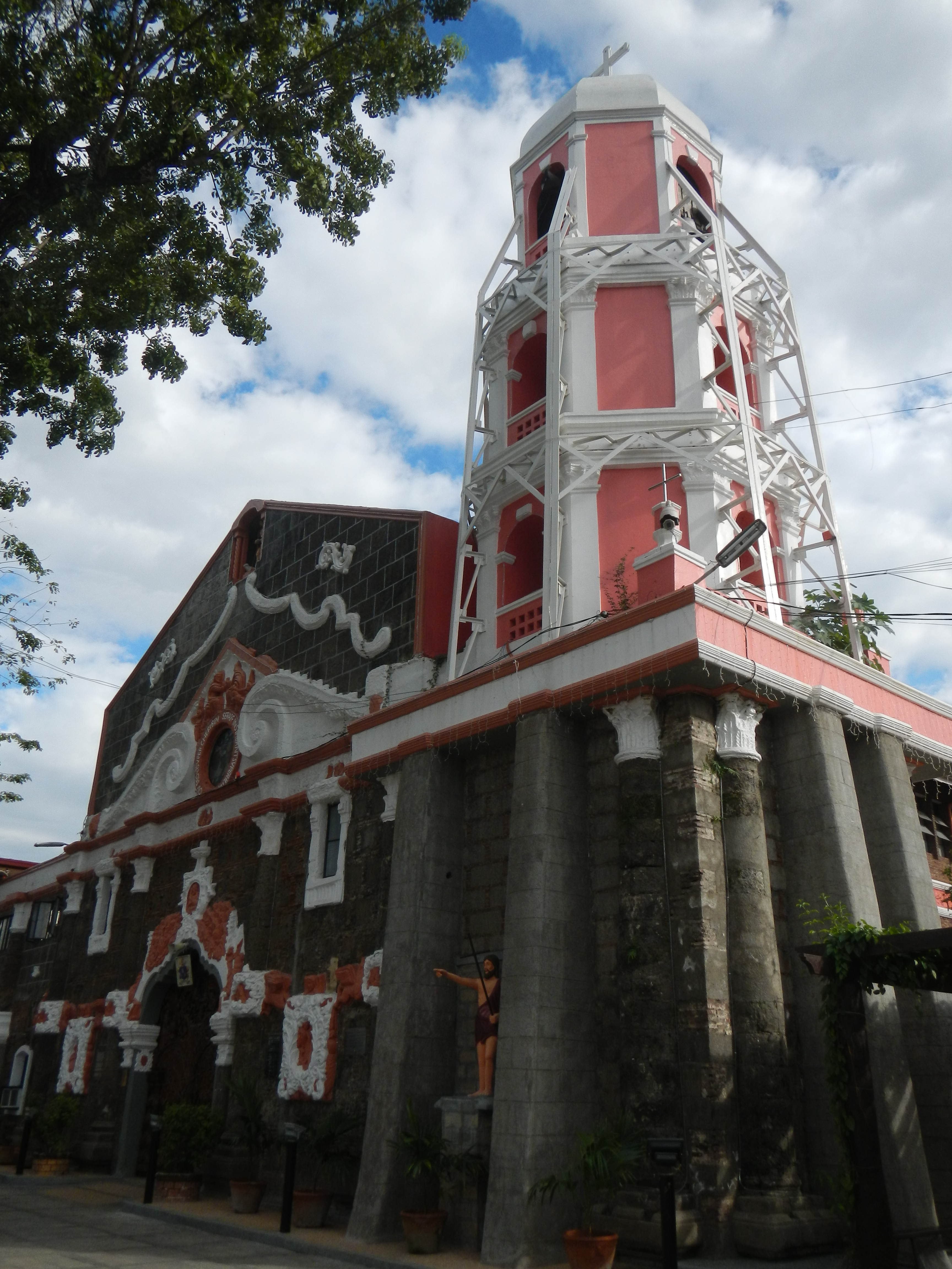 Saint John the Baptist Catholic School in Washington street, beside Exterior of the 1572 San Juan Bautista Church (Calumpit) in Calumpit, Bulacan in Barangay Poblacion, Calumpit, Bulacan; Renovations on Calumpit, Bulacan Church, 400 years old the oldest in Bulacan built in 1579, the present church and convent were finished in 1779, reconstructed in 1829, the belfry was burned during the Philippine Revolution in 1899, Parish priest, Fr. Proceso Espiritu, instead of retrofitting, what happened was a renovation; National Commission for Culture and the Arts (NCCA) Chair Felipe de Leon Jr. describes the renovation as a monstrosity; decreed as Pilgrimage Church in the Jubilee Year of Mercy December 8, 2015 to November 20, 2016, Door of Mercy and from March 11, 2012 to March 11, 2013, 1572; Rectory, Convent, Parish Office and Knights of Columbus building, 1991).